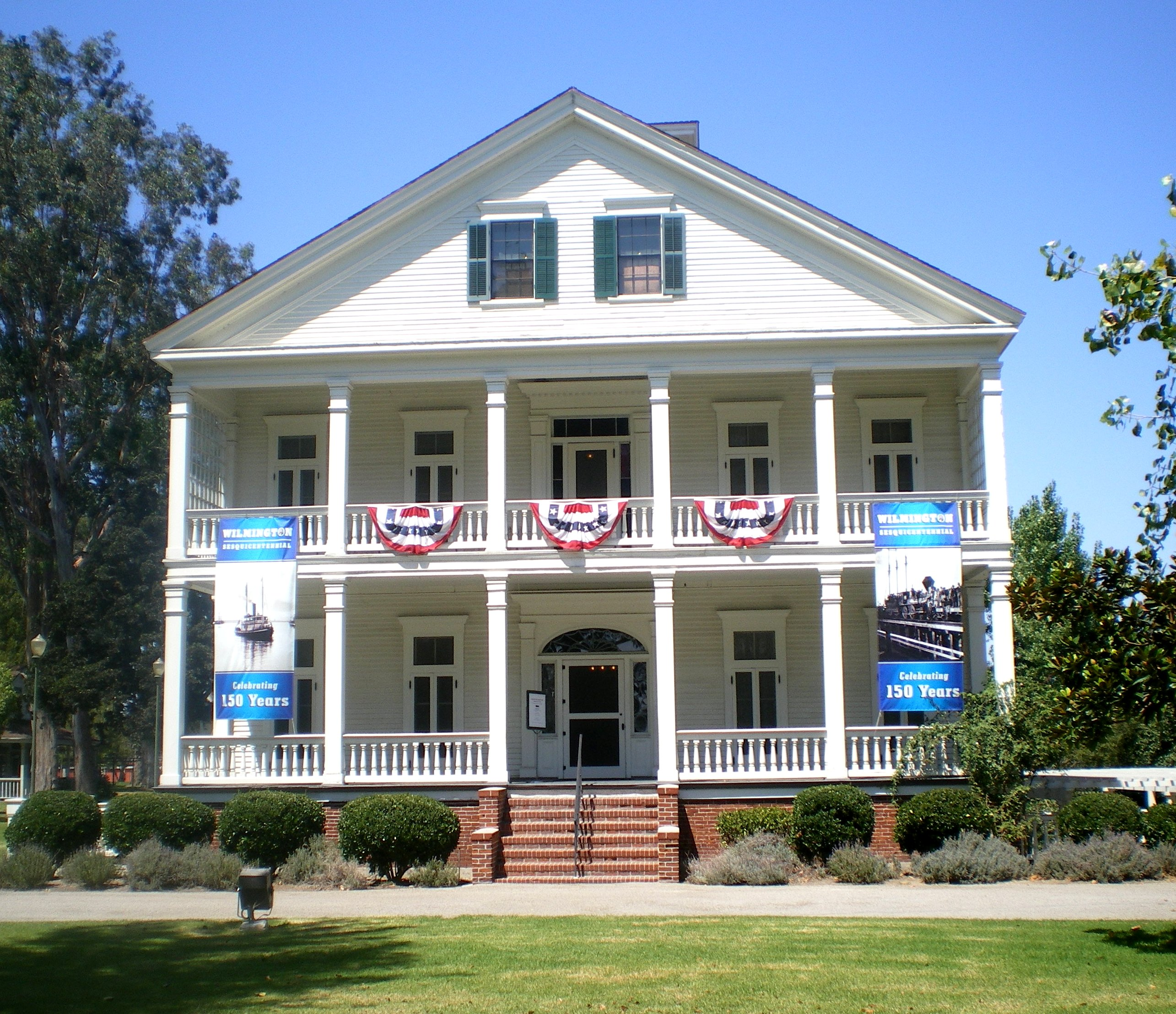 Banning House, M Street, Wilmington, California